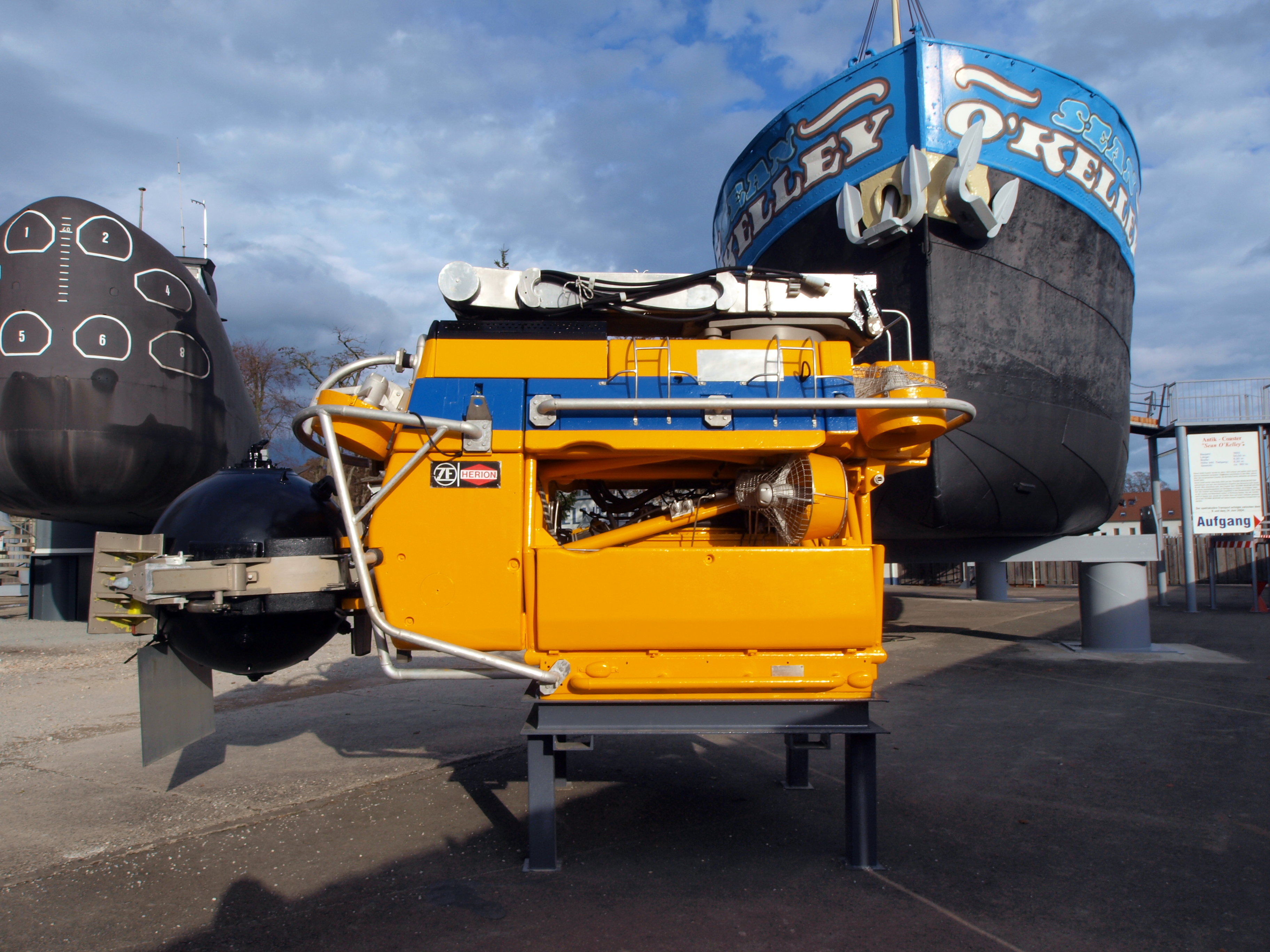 Photographed at the Technik Museum Speyer, Germany.